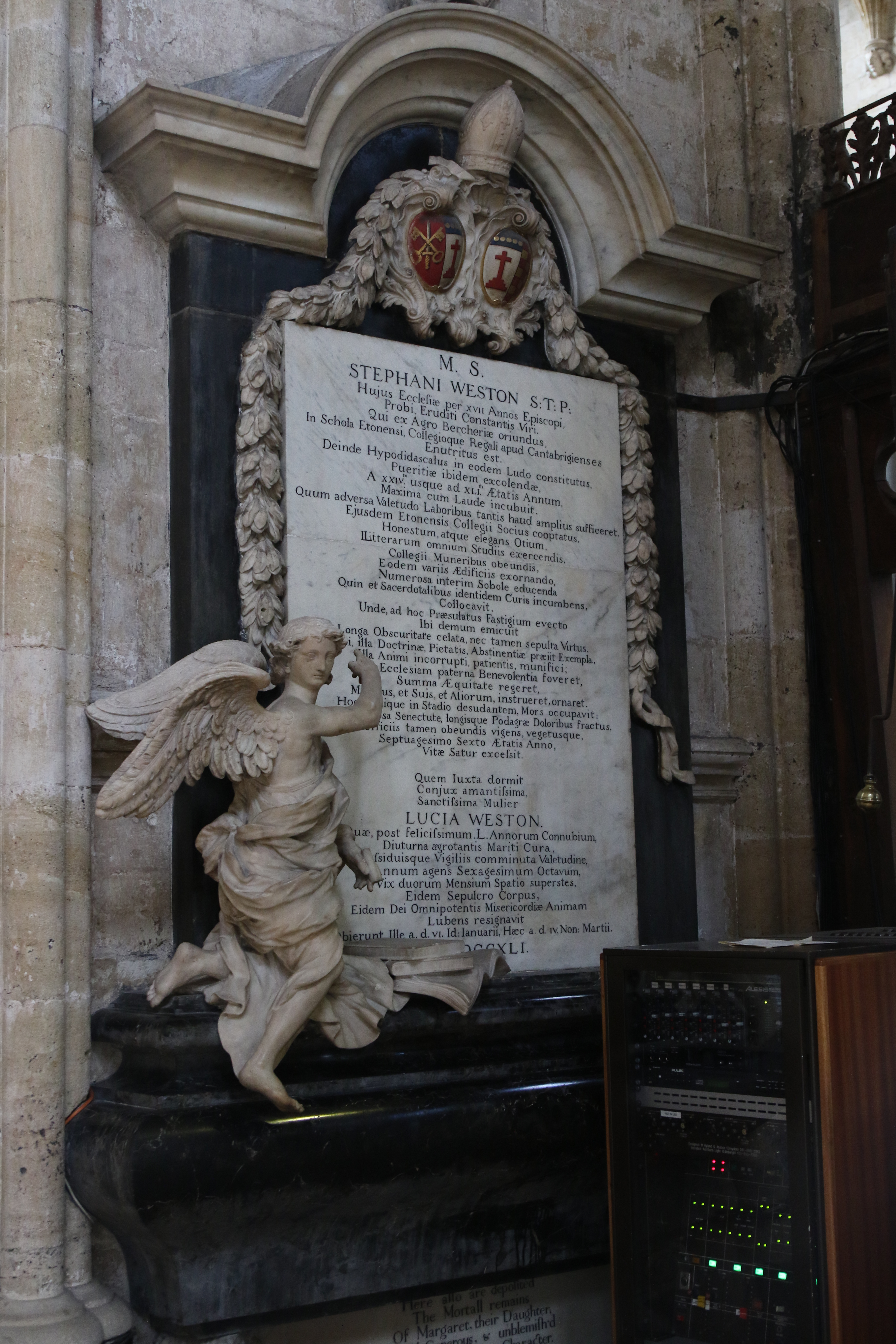 Stephen Weston and Lucia Weston. Bishop of Exeter